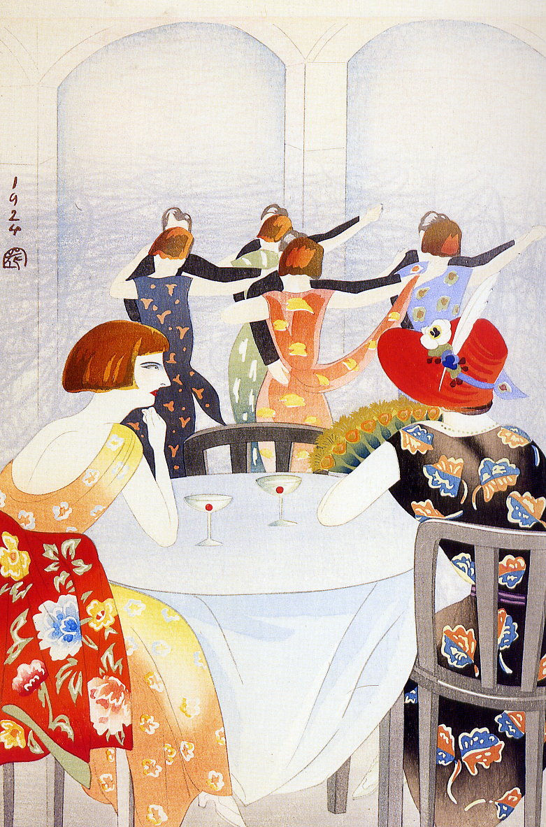 Yamamura Koka: Dancing at the New Carlton Hotel in Shanghai, 1924. Color print, 40x27 cm.